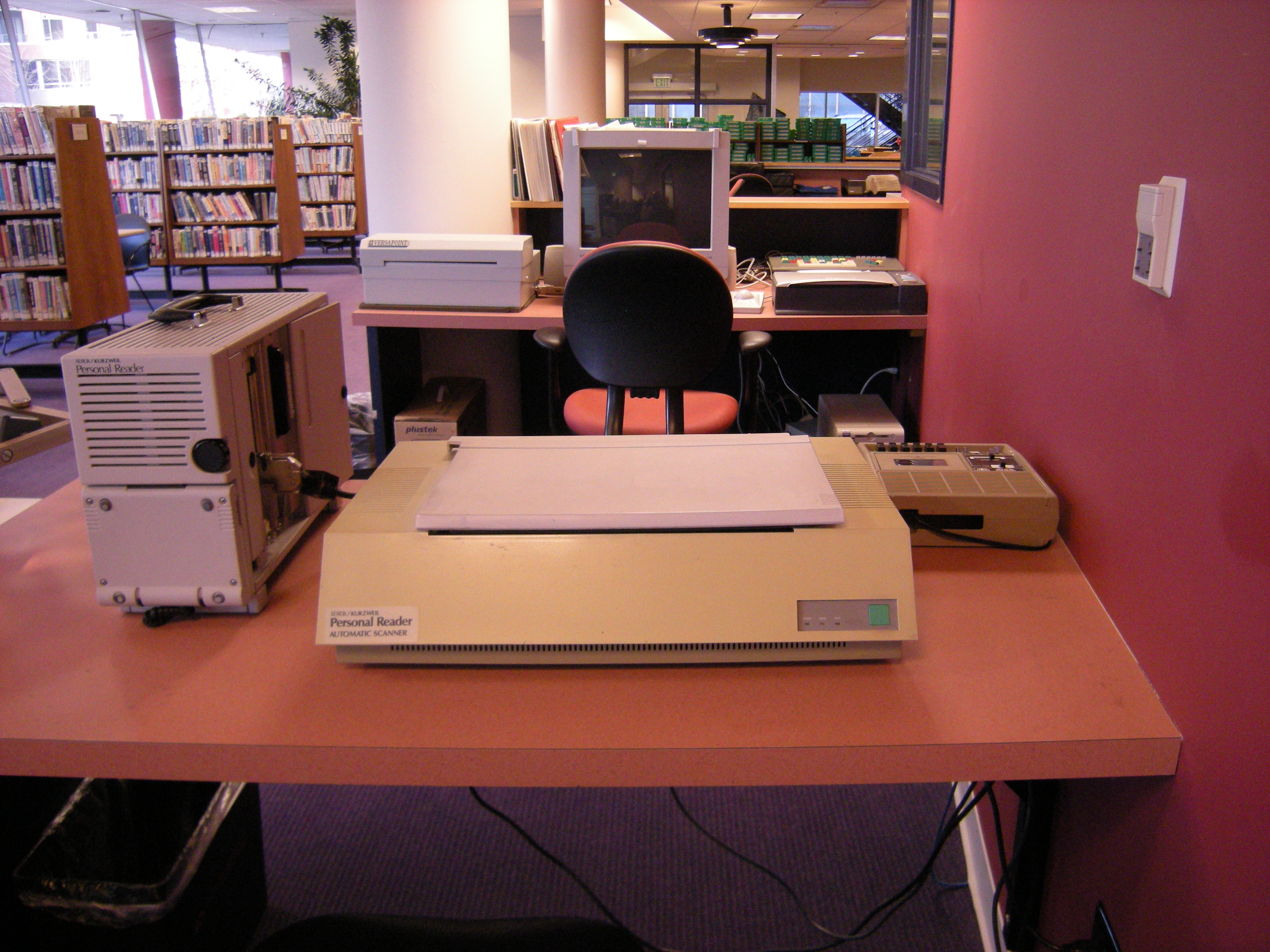 Xerox/Kurzweil Personal Reader, Washington Talking Book & Braille Library, Seattle, Washington, USA. The device is capable of scanning books and reading out their contents to blind or vision-impaired patrons.